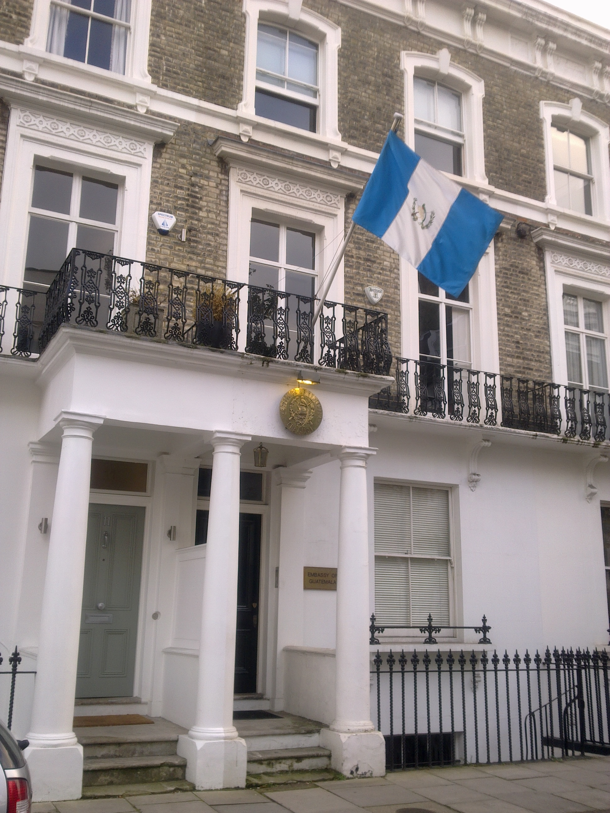 Embassy of Guatemala in London 1